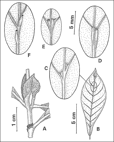 Vegetative characters of Psychotria viridis.